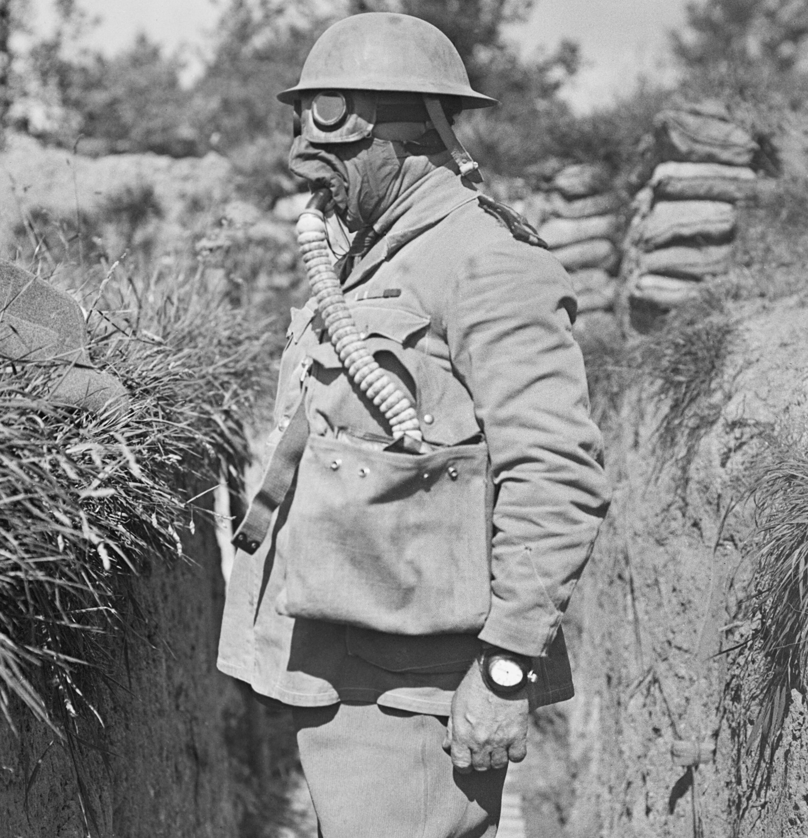 An Australian chaplain wearing the "Large Box Respirator" also known as the "Respiratory Tower" during the First World War. Additional information : The man is probably Major Walter Dexter, DSO, DCM, in the Bois Grenier Sector on 5th June 1916. (source of information : Simon Jones, World War I Gas Warfare Tactics and Equipment, Osprey Publishing, 2007).